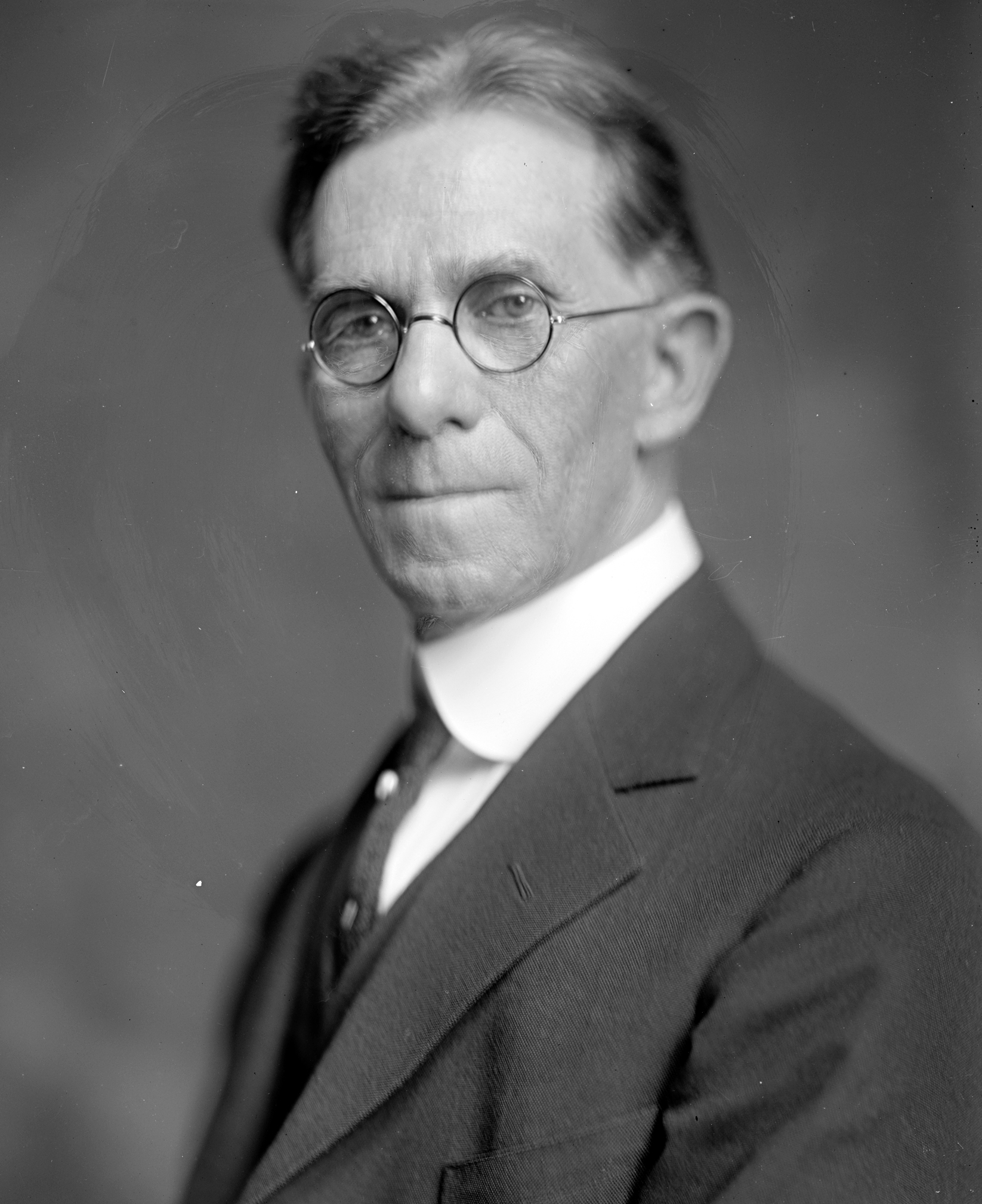 James Jefferson Britt, US Representative from North Carolina